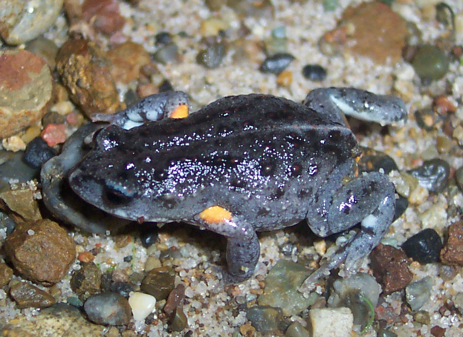 A Bibron's Toadlet, (Pseudophryne bibronii) from Port Stephens NSW.